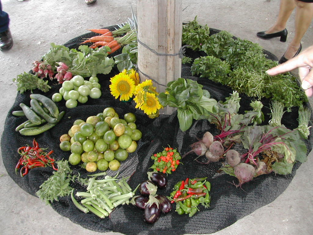 Produce grown at organic community garden in Santa Clara, Cuba. Most of the workers are retired. Profits are shared based on how much time is worked.